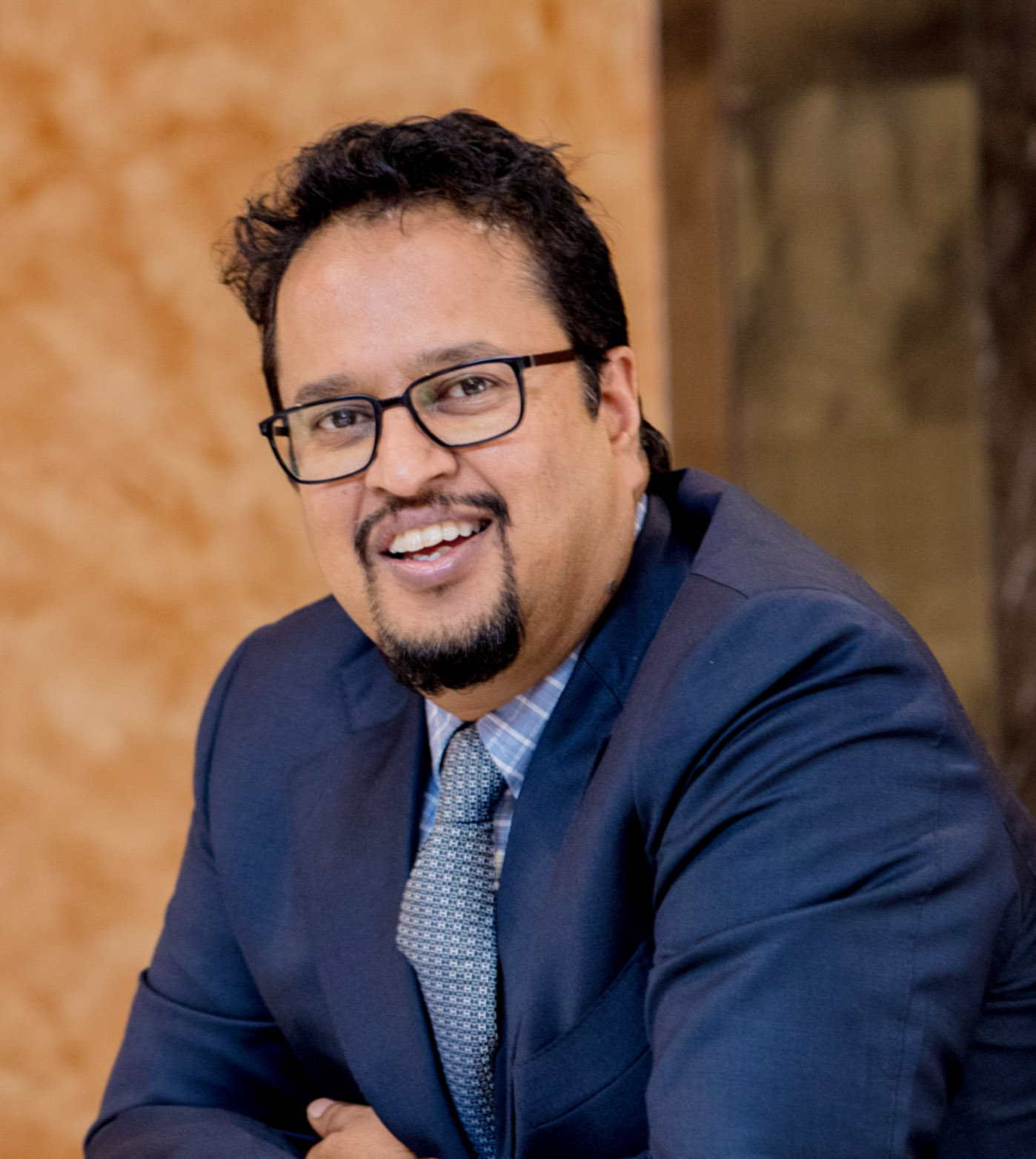 Photo of Mr Sanjay Agarwal, MD & CEO, AU Small Finance Bank